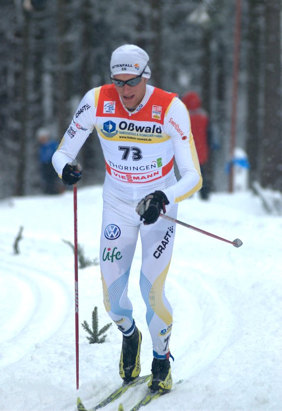 Daniel Richardsson at the Tour de Ski 2010 in Oberhof